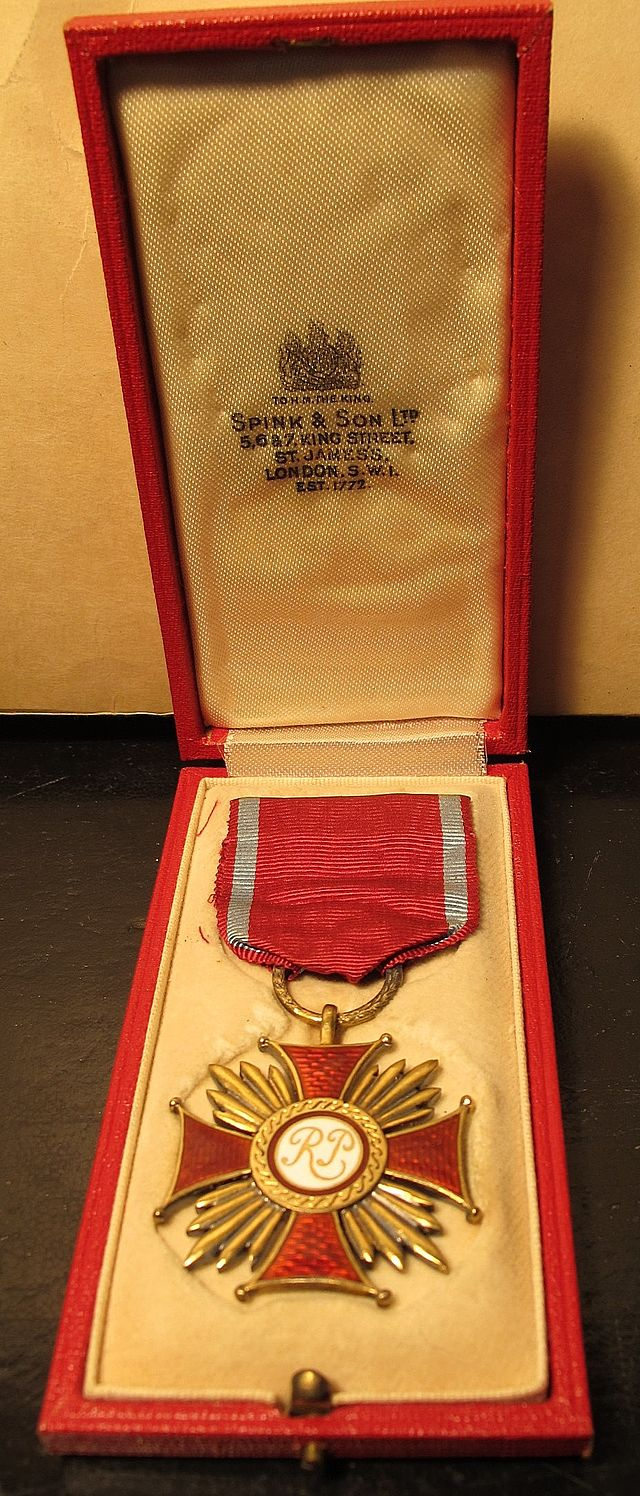 "Cross of Merit" - A medal awarded Kligler called the Polish government in 1943 by the Polish consul in Jerusalem, for his contribution to the development of a vaccine for medical help Polish refugees, displaying courage when he had taken the vaccine